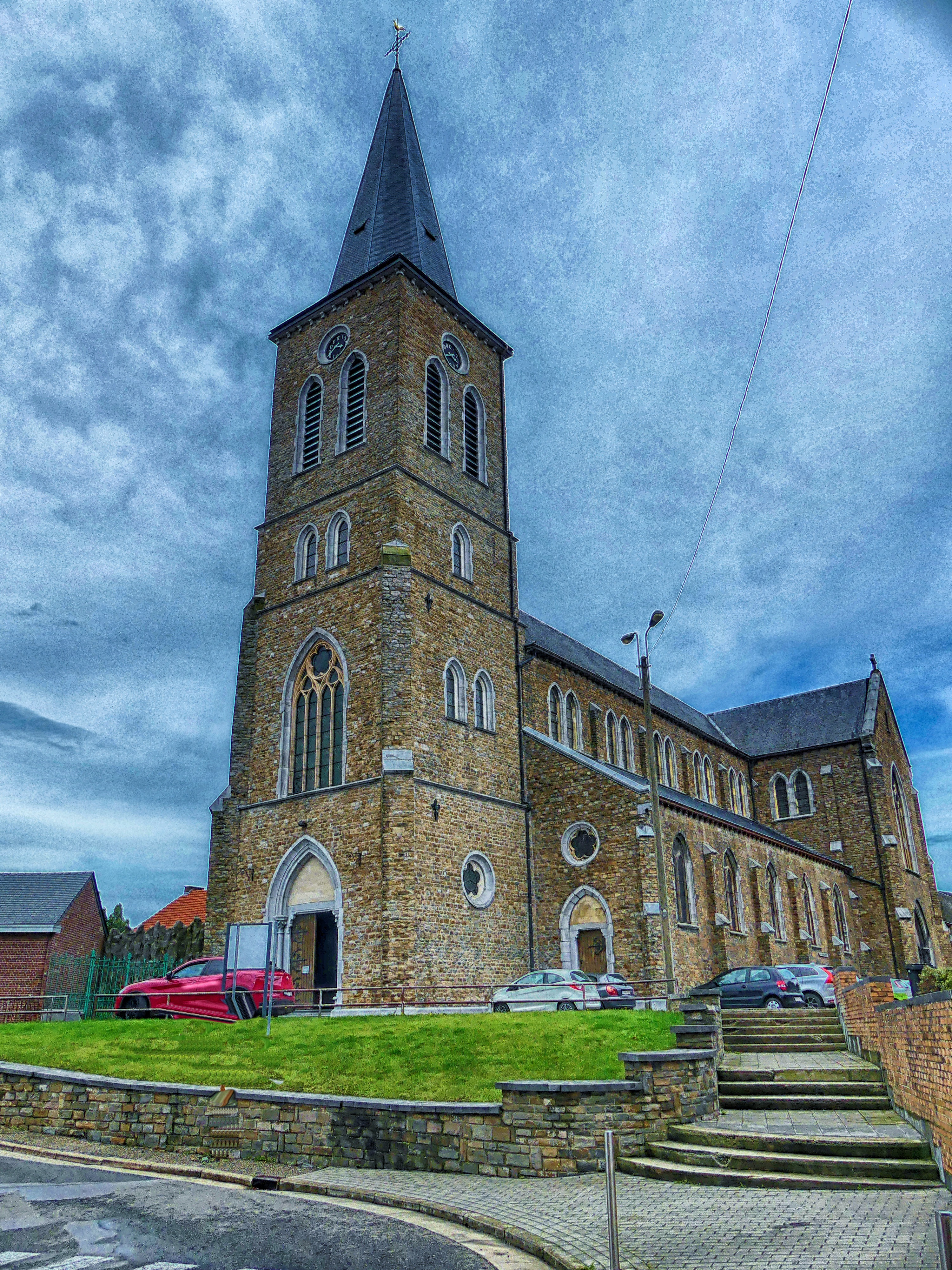 Neo-Gothic Belgian church Eglise Saint-Pierre in Waremme